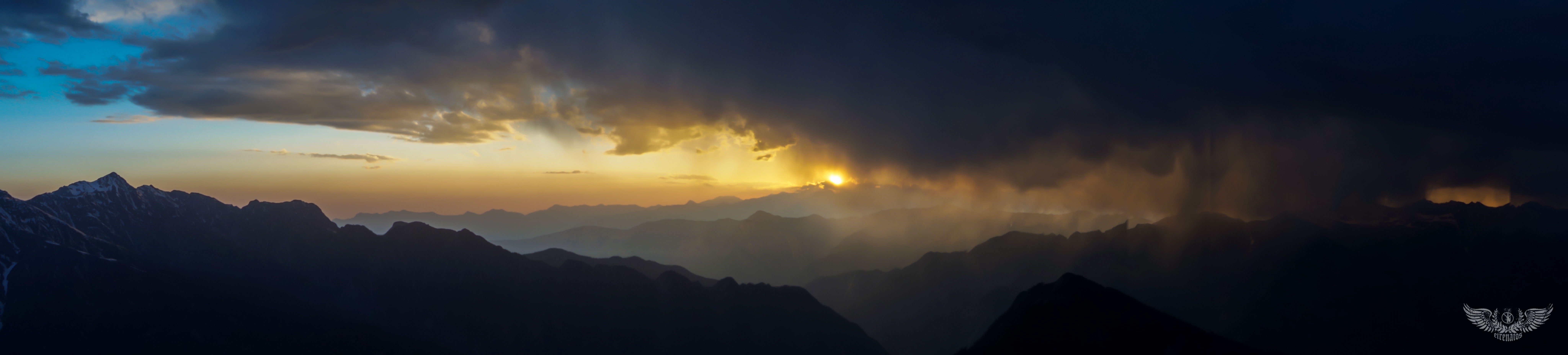 View from the highest camp site of Sar Pass Trek at the altitude of 1280feet.